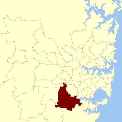 Location of the New South Wales Legislative Assembly electoral district within Sydney in New South Wales. Reference: [1]